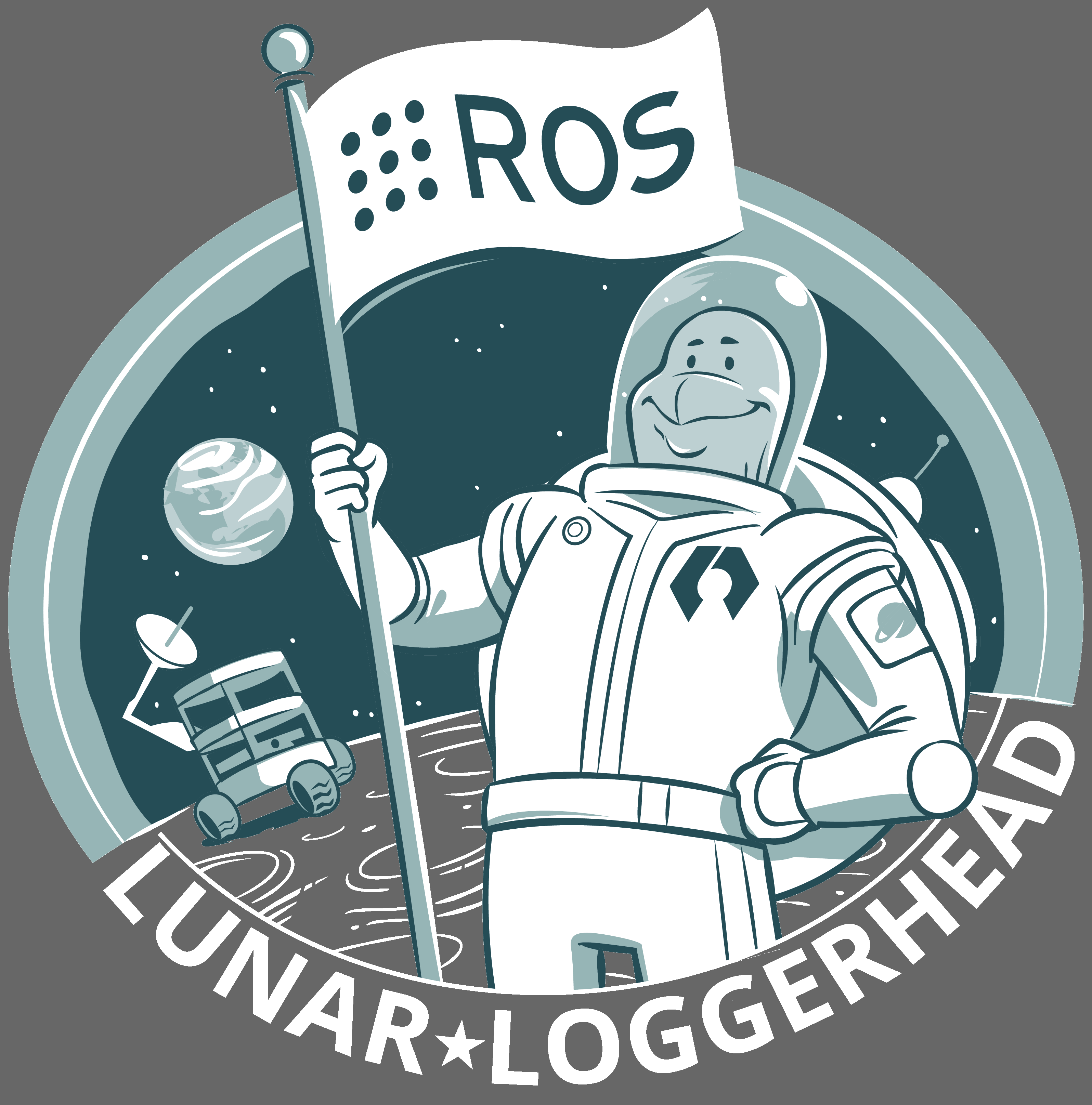 ROS Lunar Loggerhead is the eleventh ROS distribution release. It will be released on May 23rd, 2017.